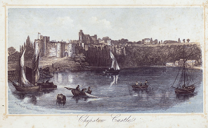 1 print : engraving (tinted), b&w ; image size 89 x 162 mm., paper size 128 x 191 mm.